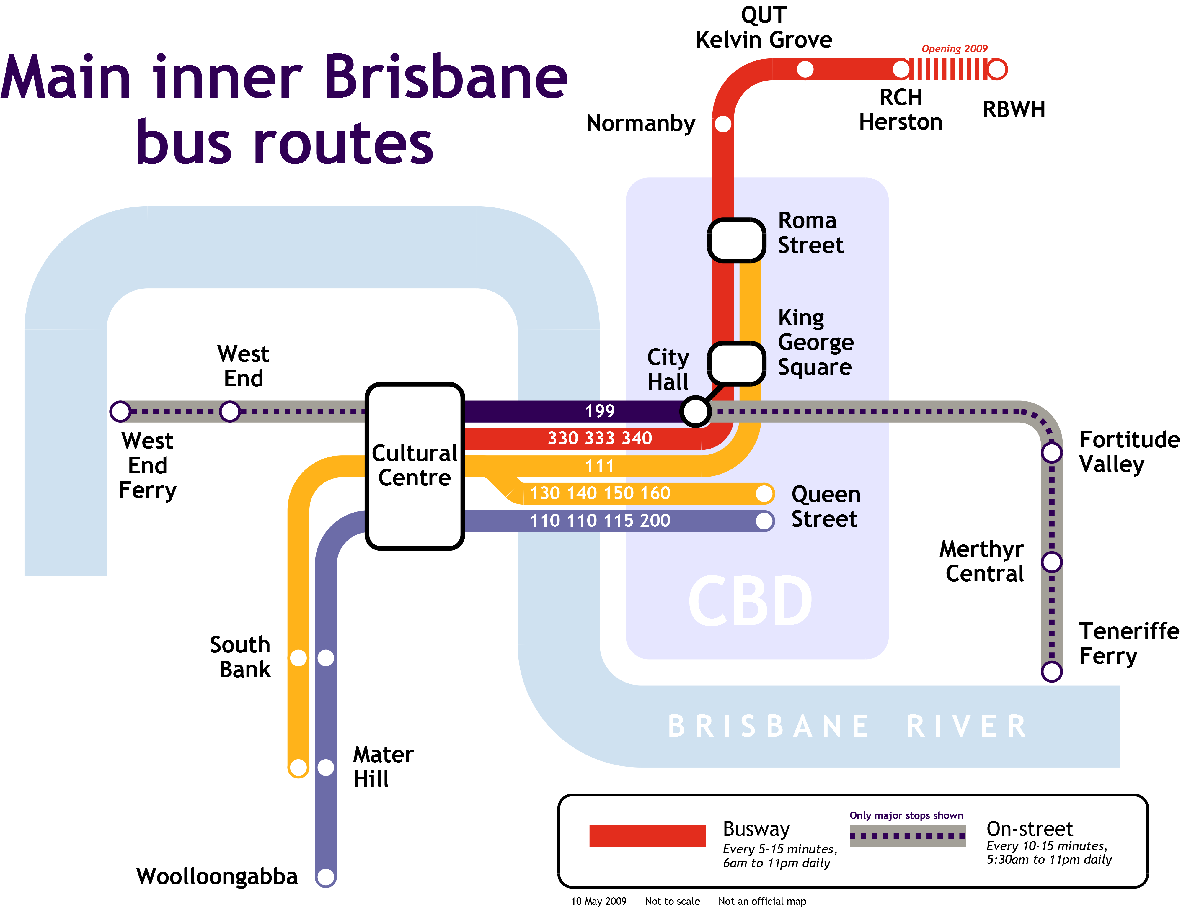 Guide to the main bus services along the inner-city portions of Brisbane's busways system (plus route 199 from West End to Teneriffe)